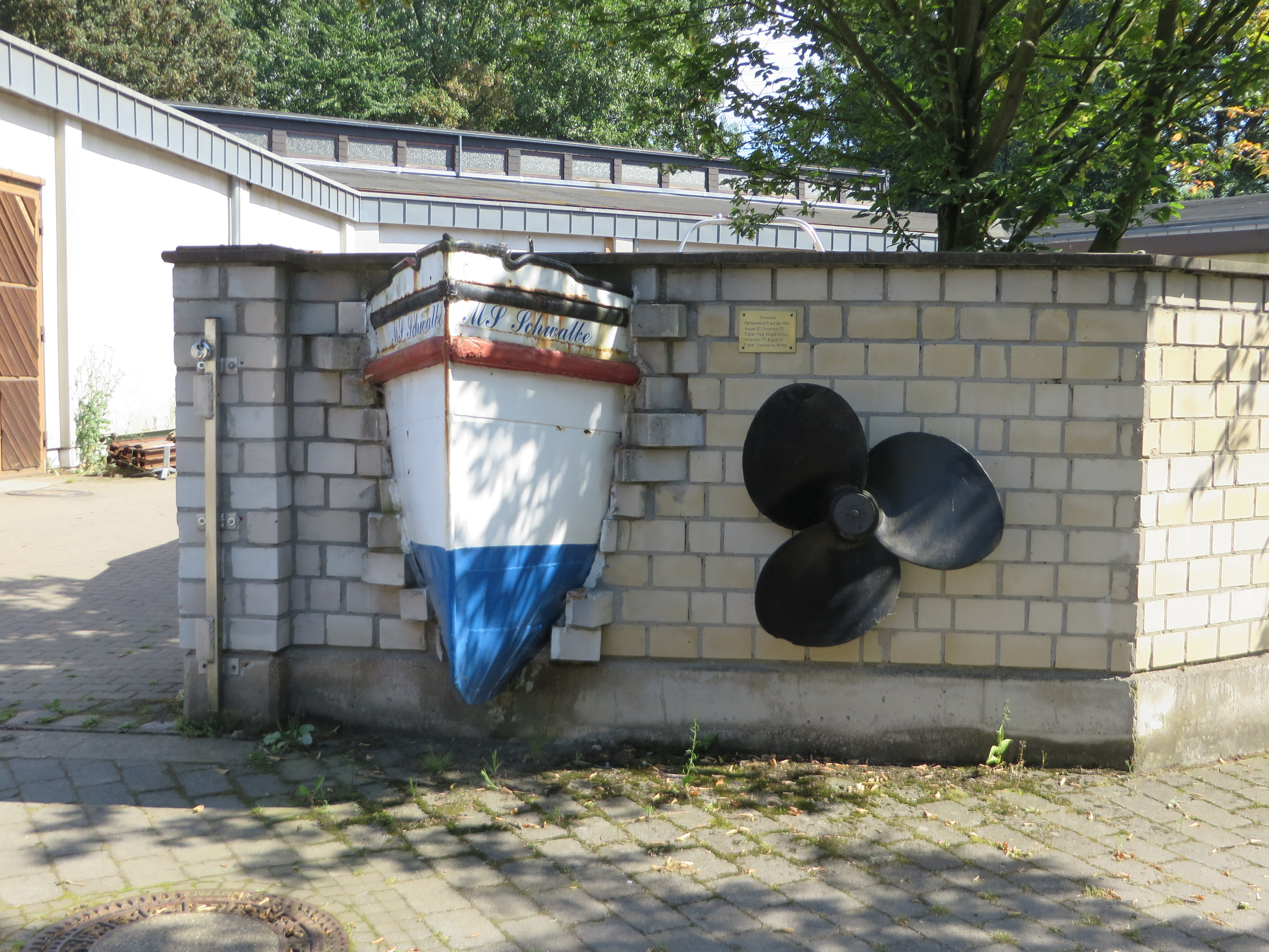 Bow and propeller of ship Schwalbe in Witten, Germany